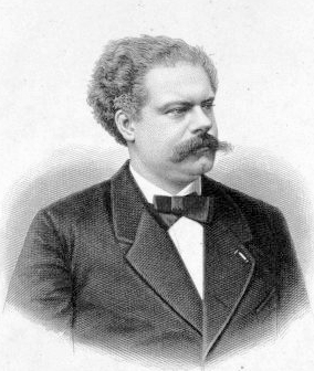 Austrian opera singer Emil Scaria (1838-1886) by August Weger (1823-1892).